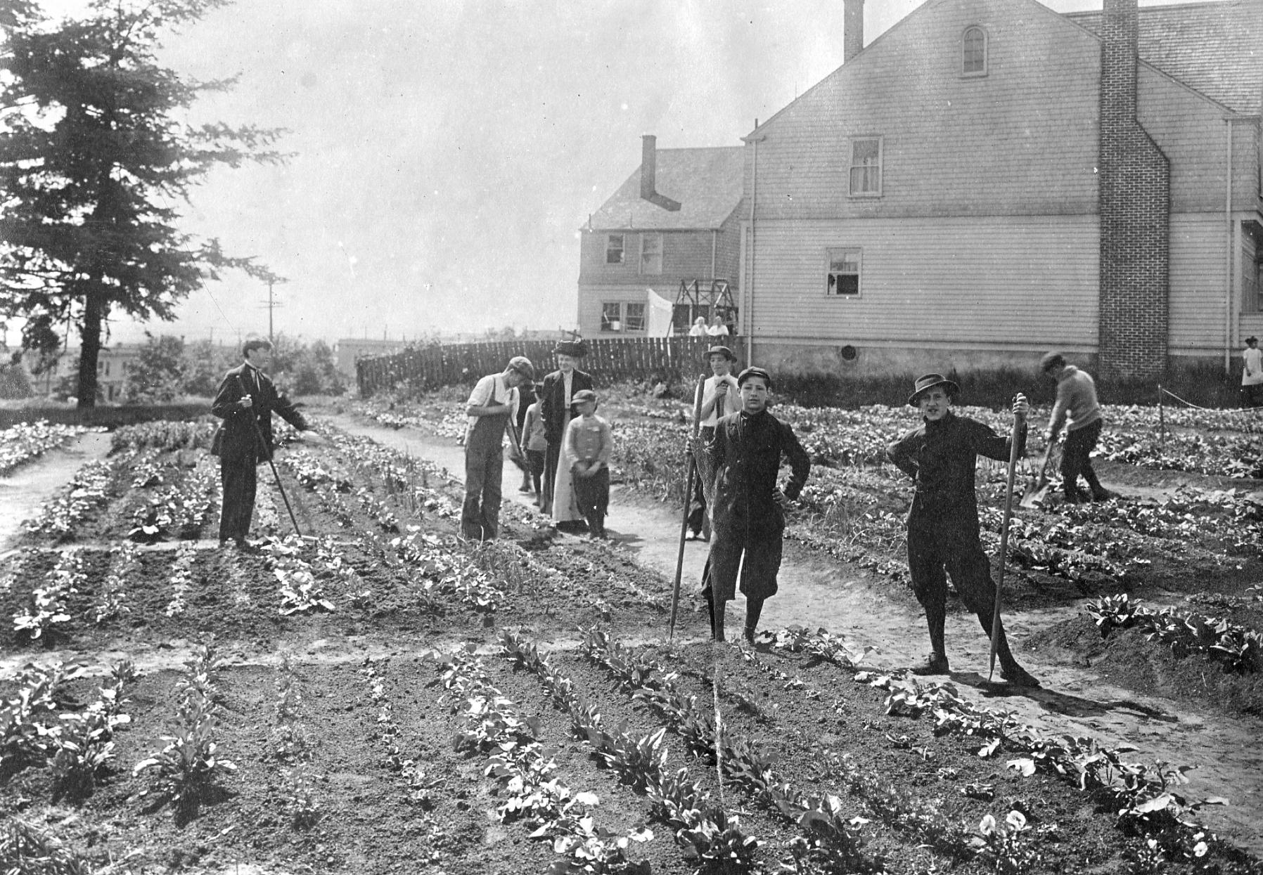 School garden with people tending the garden.Original Collection: 4-H Photograph Collection. Item Number: P146:2163. You can find this image by searching for the item number by clicking here. Want more? You can find more digital resources online. We're happy for you to share this digital image within the spirit of The Commons; however, certain restrictions on high quality reproductions of the original physical version may apply. To read more about what “no known restrictions” means, please visit the Special Collections & Archives website. or contact staff at the OSU Special Collections & Archives Research Center for details. Location: Oregon? (OSU = Oregon State University)